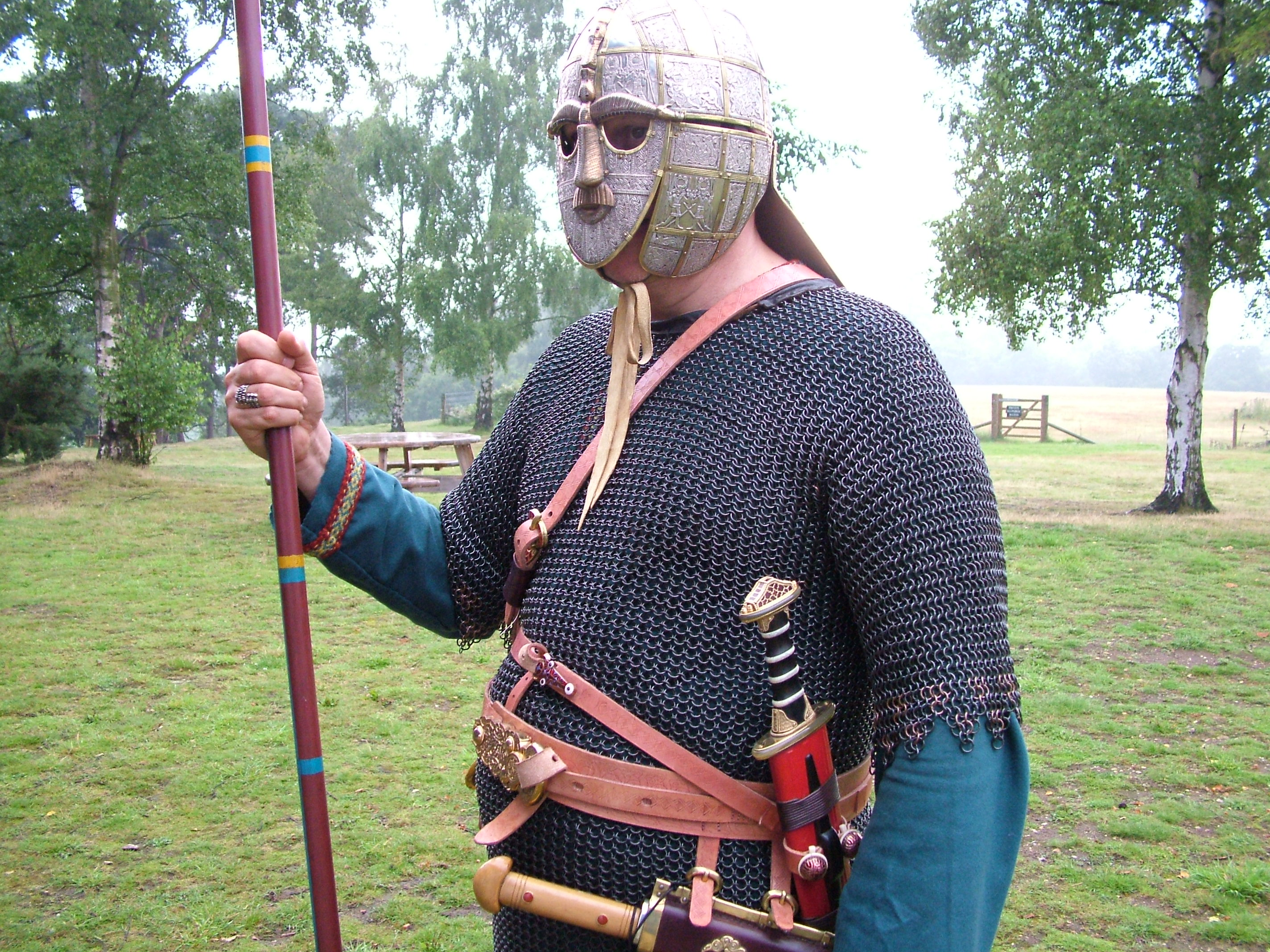 Reenactor. Displays some replicas of grave goods from the Sutton Hoo ship-burial 1: helmet, belt buckle, sword.